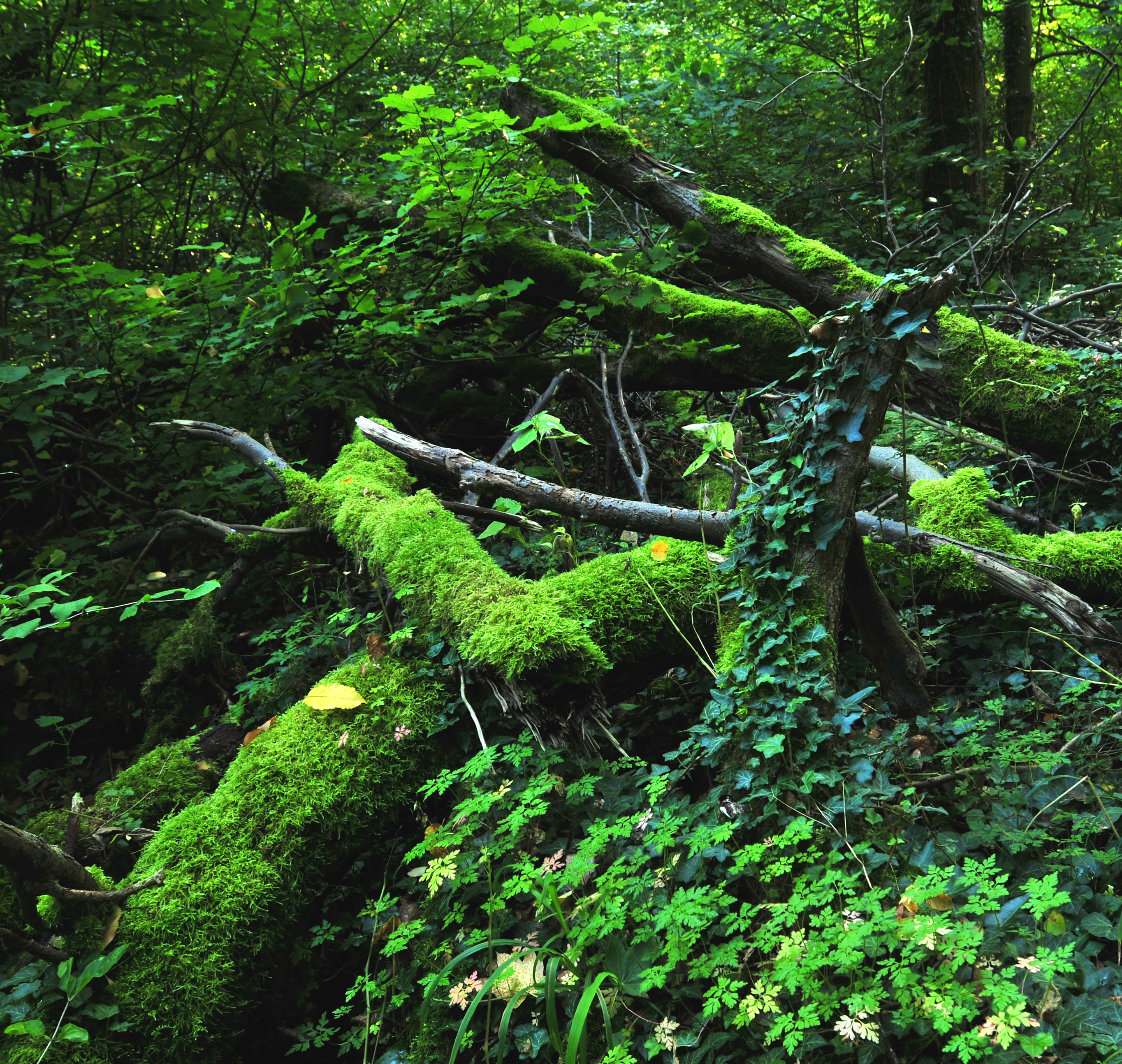 Coarse woody debris in the "Hallerburger Holz" in Adensen, Nordstemmen, Lower Saxony, Germany. The "Hallerburger Holz" is a natural habitat and one of the best wildlife areas in Germany and belongs to the protected Natura 2000 localities in Europe.